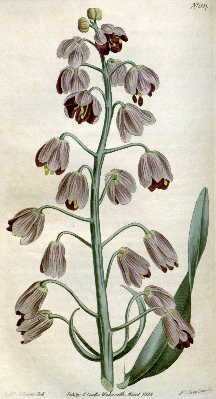 Fritillaria persica (subgenus Theresia)